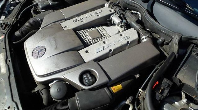 Underbonnet view showing a UK 2003MY V6 engine, with AMG builder's plaque. This is mounted atop the supercharger body.